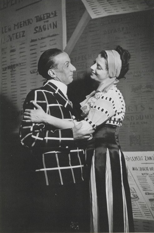 Payen, Duval [Les Mamelles de Tirésias, Paris]. From : [Photographs collected by French composer Francis Poulenc, 1924-1958]